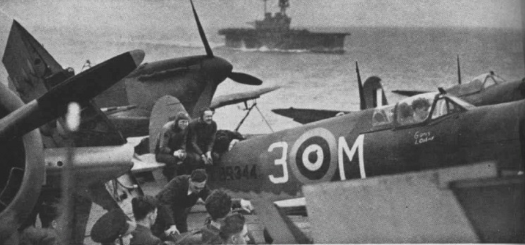 Royal Air Force Supermarine Spitfire Mk.VC are spotted on the deck of the U.S. Navy aircraft carrier USS Wasp (CV-7) in 1942. Wasp loaded the Spitfires on 3 May 1942 and ferried them to the Mediterranean Sea. Here, they were launched on 9 May 1942 to reinforce the British-held Malta ("Operation Bovery"). A Grumman F4F-4 Wildcat of Fighter Squadron 71 (VF-71) is parked on the left (with radial engine and folded wings). The British aircraft carrier HMS Eagle is visible in the background. Both carriers launched 64 Spitfires.